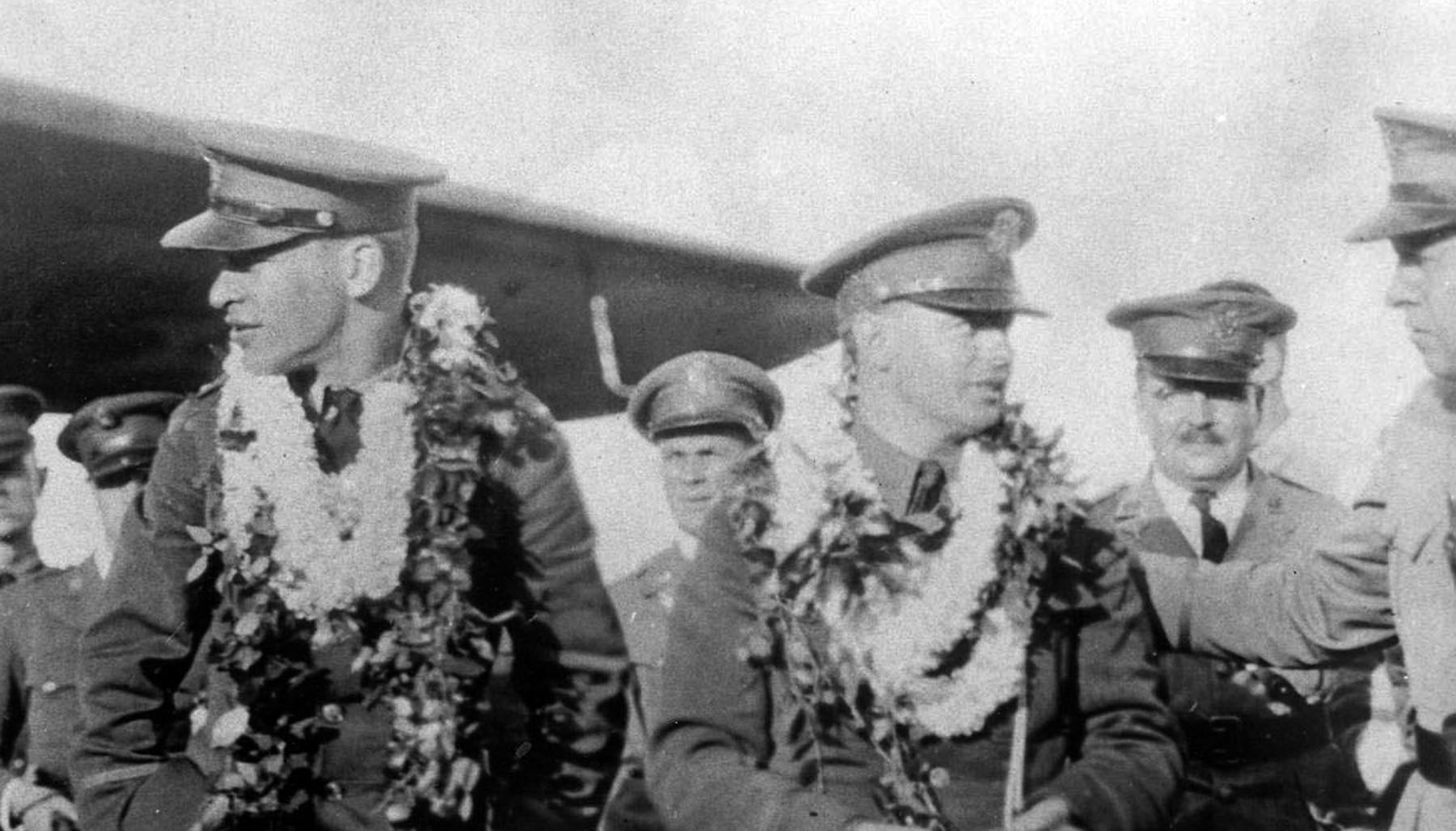 Lts. Lester J. Maitland (left) and Albert F. Hegenberger after landing at Wheeler Field, Hawaii, in 1927. Hegenberger’s skill as a navigator made possible the first non-stop flight from California to Hawaii. (U.S. Air Force photo)